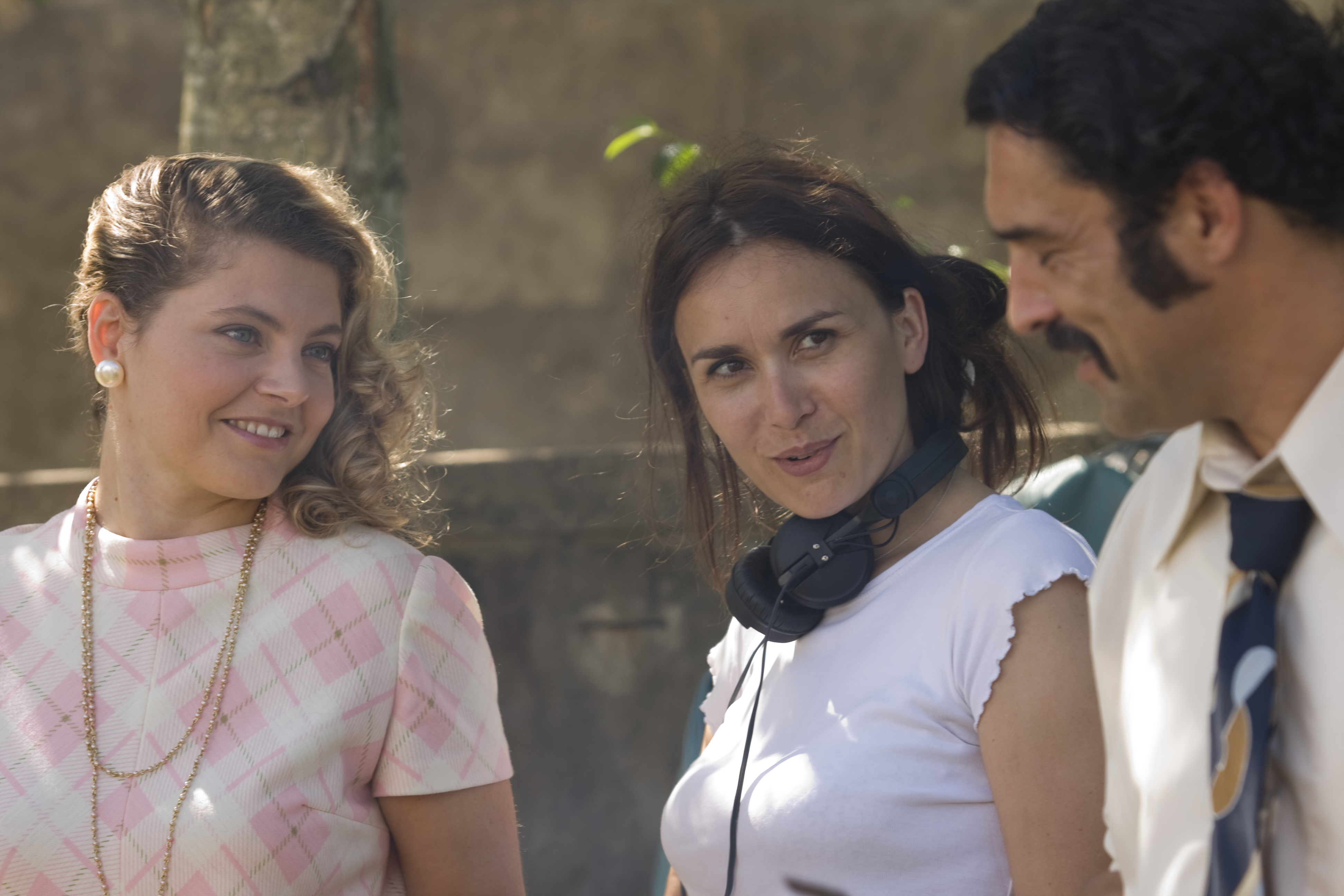 Sur le tournage du film Gamines. De gauche à droite : l'actrice Sophie Guillemin, la réalisatrice Eléonore Faucher et l'acteur Jean-Pierre Martins.